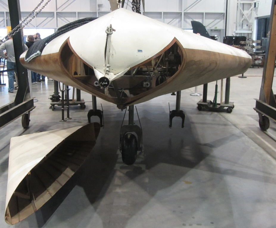 Lippish DM-1